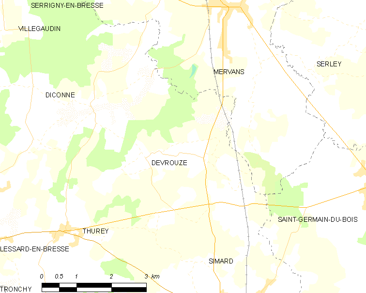 Map of French municipality